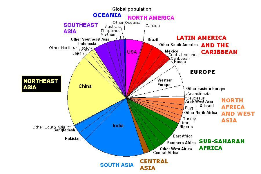 Global population distribution by region. Colours indicate broad regions while smaller divisions within these colours indicate subregions. "Other North America" refers to Greenland and St. Pierre & Miquelon. The division between Western and Eastern Europe follows the old Iron Curtain line, except that Greece is delegated to Eastern Europe. Iceland and Finland are included in Scandinavia. Arab West Asia includes Cyprus. Mauritania and Sudan are included in North Africa while Niger is included in West Africa and Chad is included as Central Africa. Rwanda & Burundi are included as East Africa. Southern Africa is Angola, Zambia, and Mozambique south. Central Asia includes Afghanistan, Nepal, Bhutan and Mongolia.